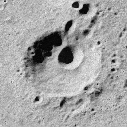 Oblique view of Chang Heng, on the far side of the moon. North is in upper right.